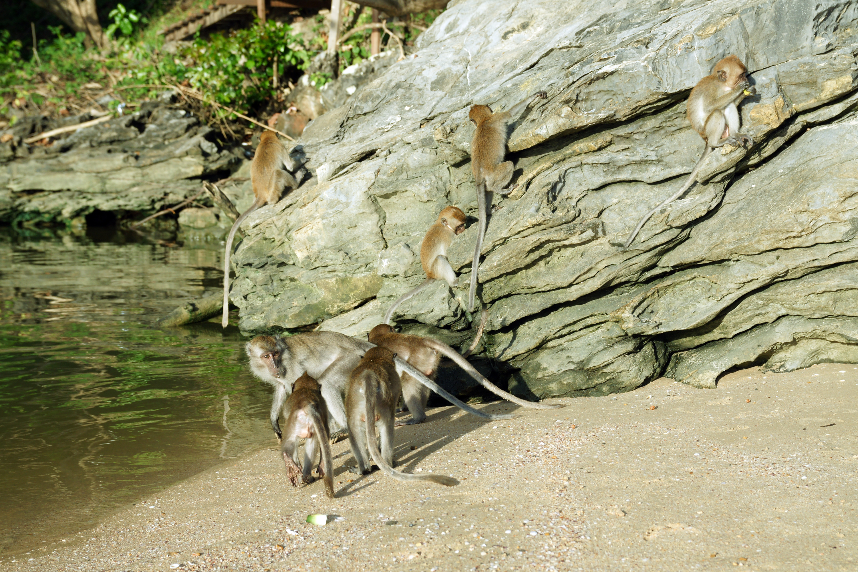 Crab-eating macaques (Macaca fascicularis) on Ao Nang beach, Krabi, Thailand.